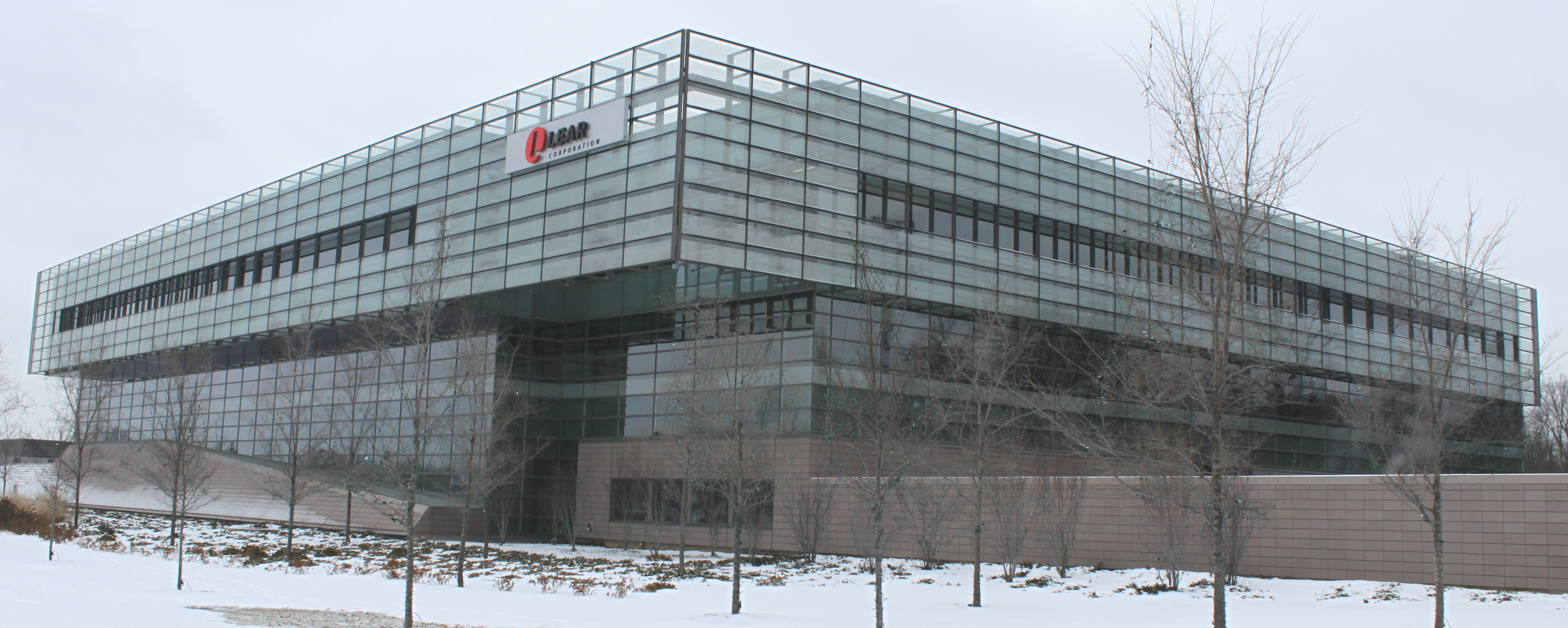 Lear Corporation Headquarters Building, 21557 Telegraph Road, Southfield, Michigan